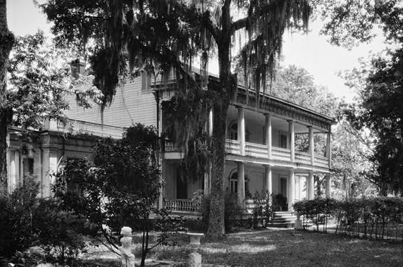 Rosedown Plantation, Saint Francisville (West Feliciana Parish, Louisiana) (cropped)